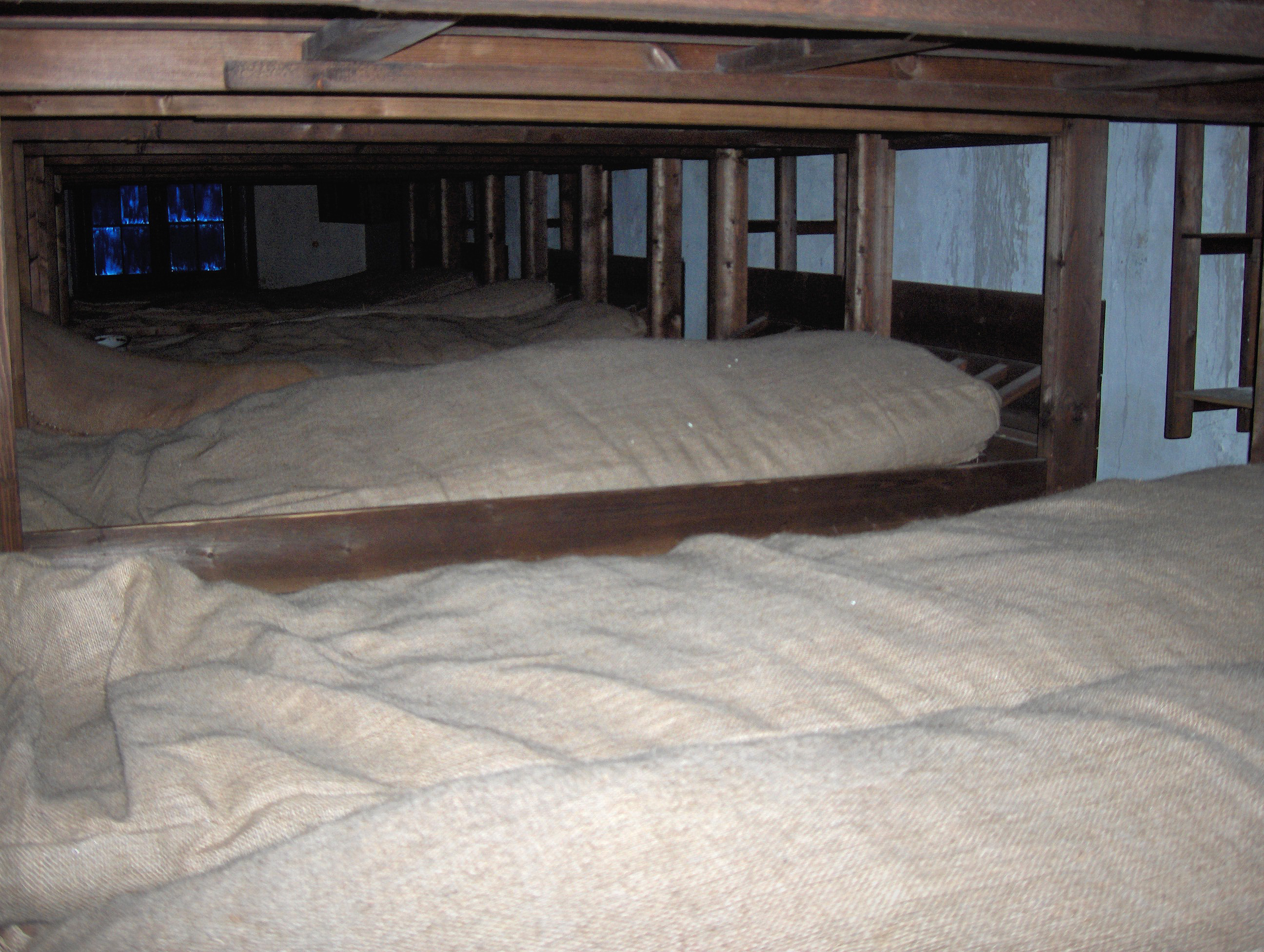 Straw mattresses on the bunkbeds in the Fort van Breendonk, Belgium